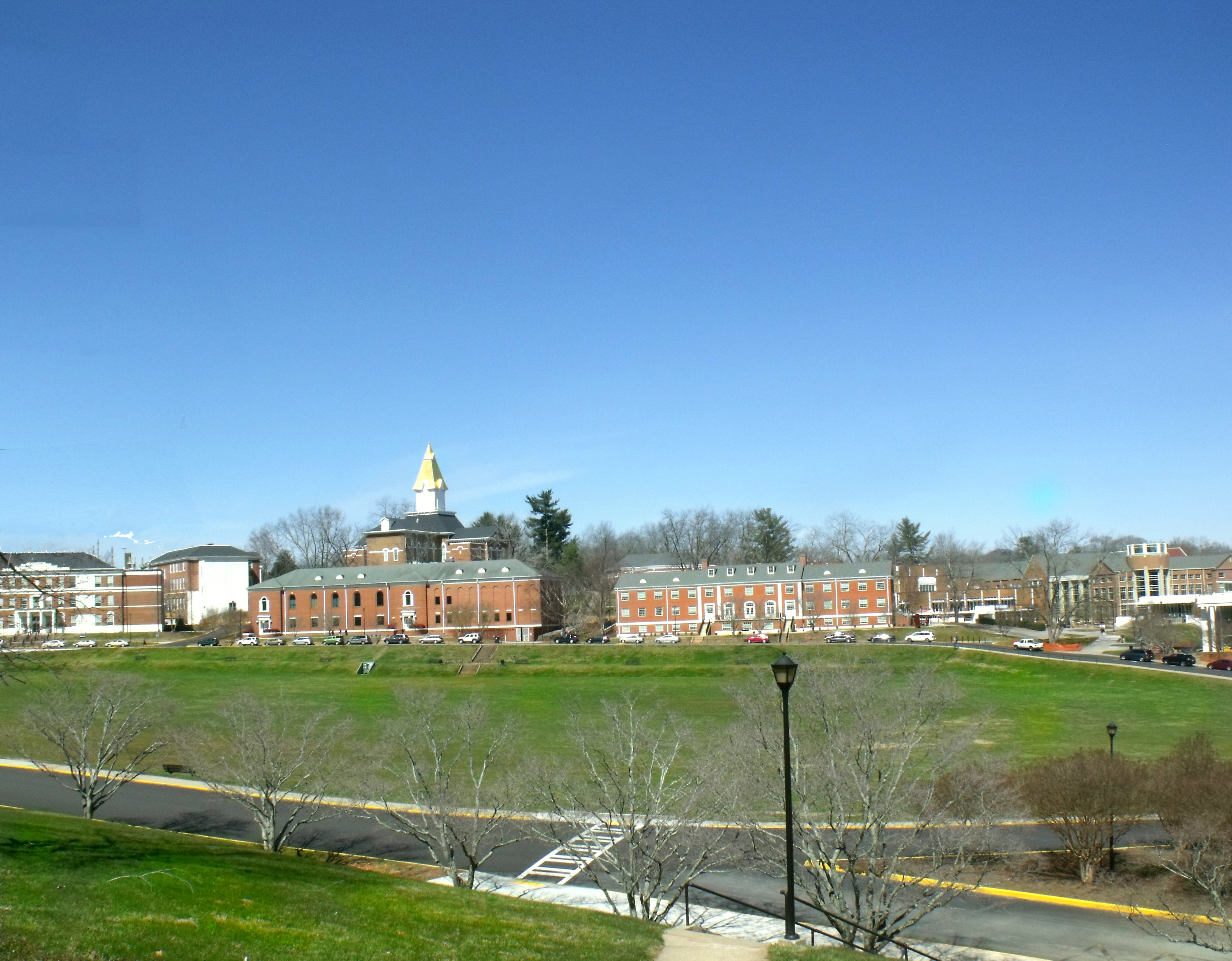 The campus of the University of North Georgia- located in Dahlonega, Georgia.